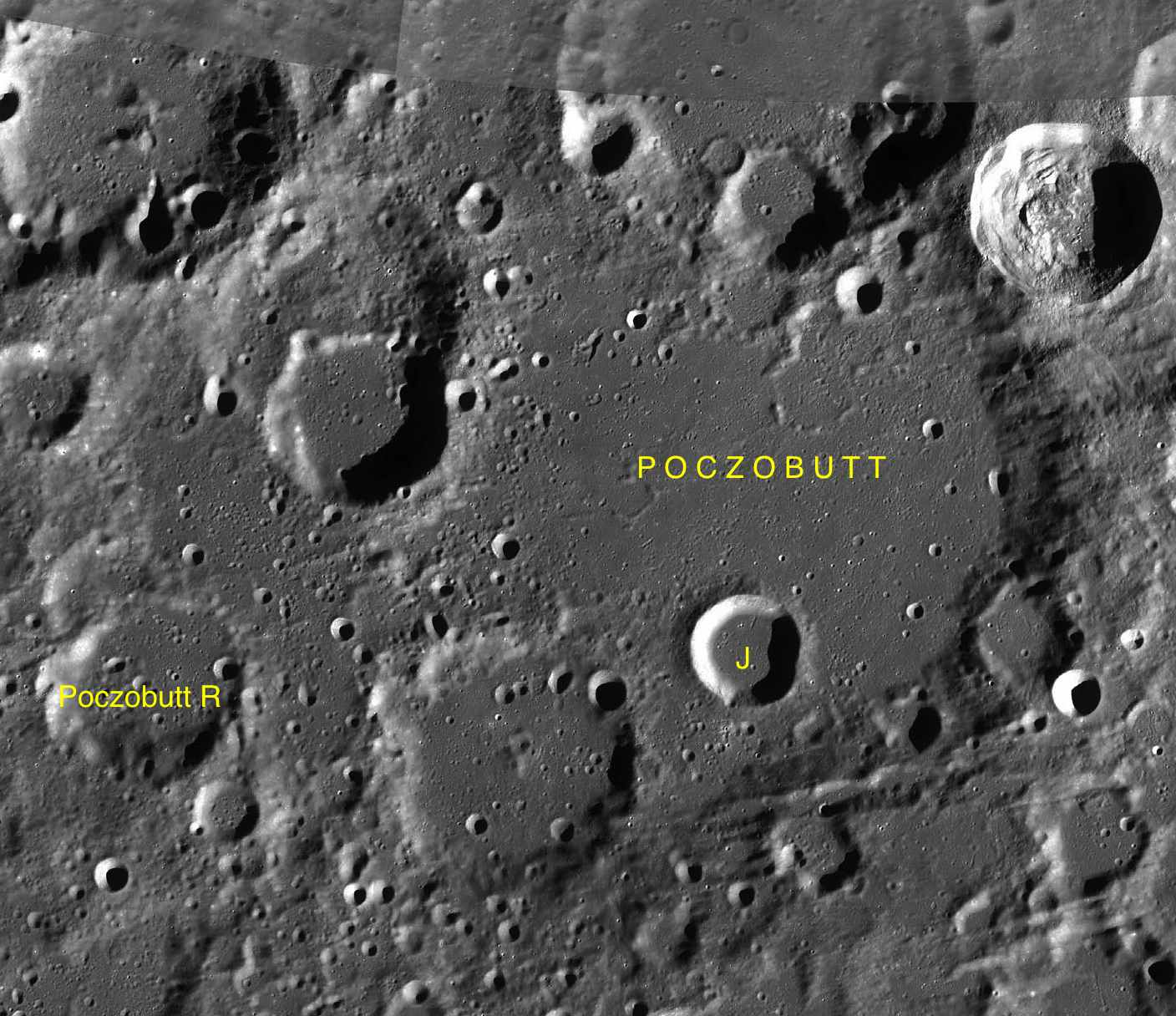 Part of the chart LAC-21 used for the presentation